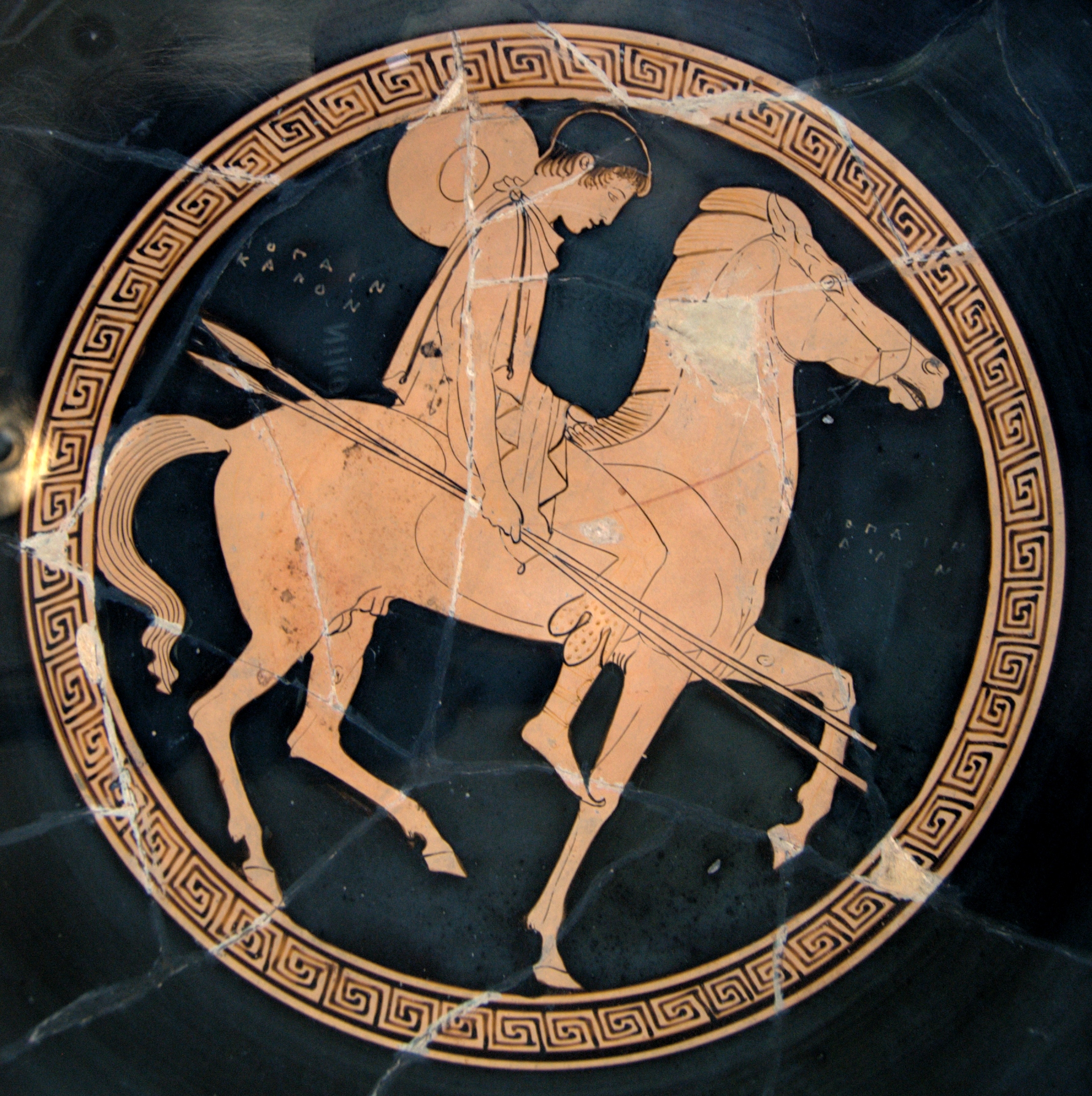 Rider, Attic red-figured cup, middle of 5th century BC.